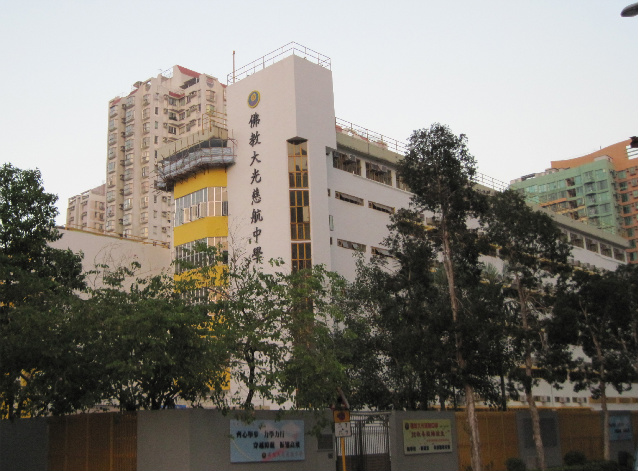 Buddish Tai Lam Chi Hong Secondary School